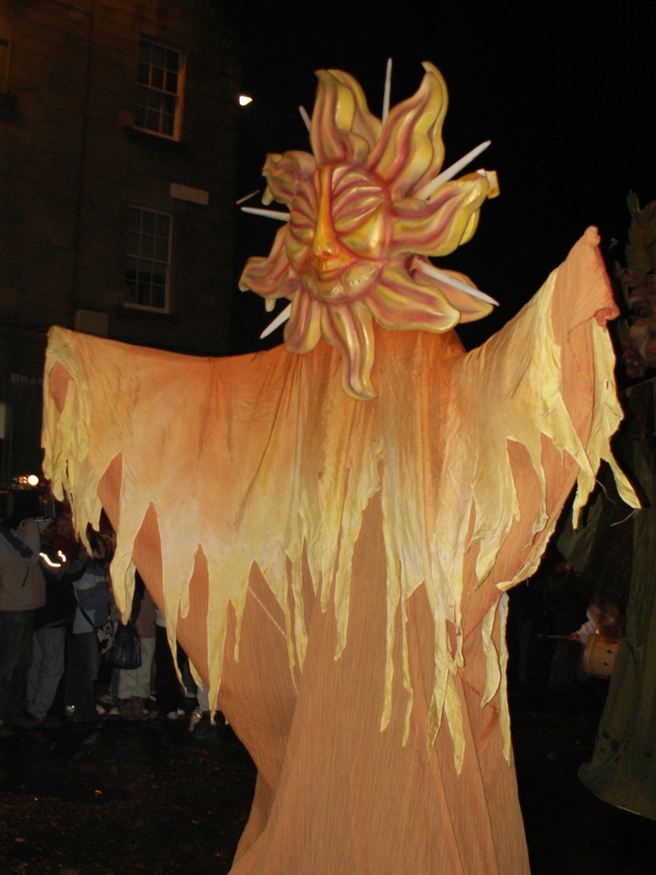 Catalonian Sun Goddess from the Hogmanay Street Party, Edinburgh 2005.